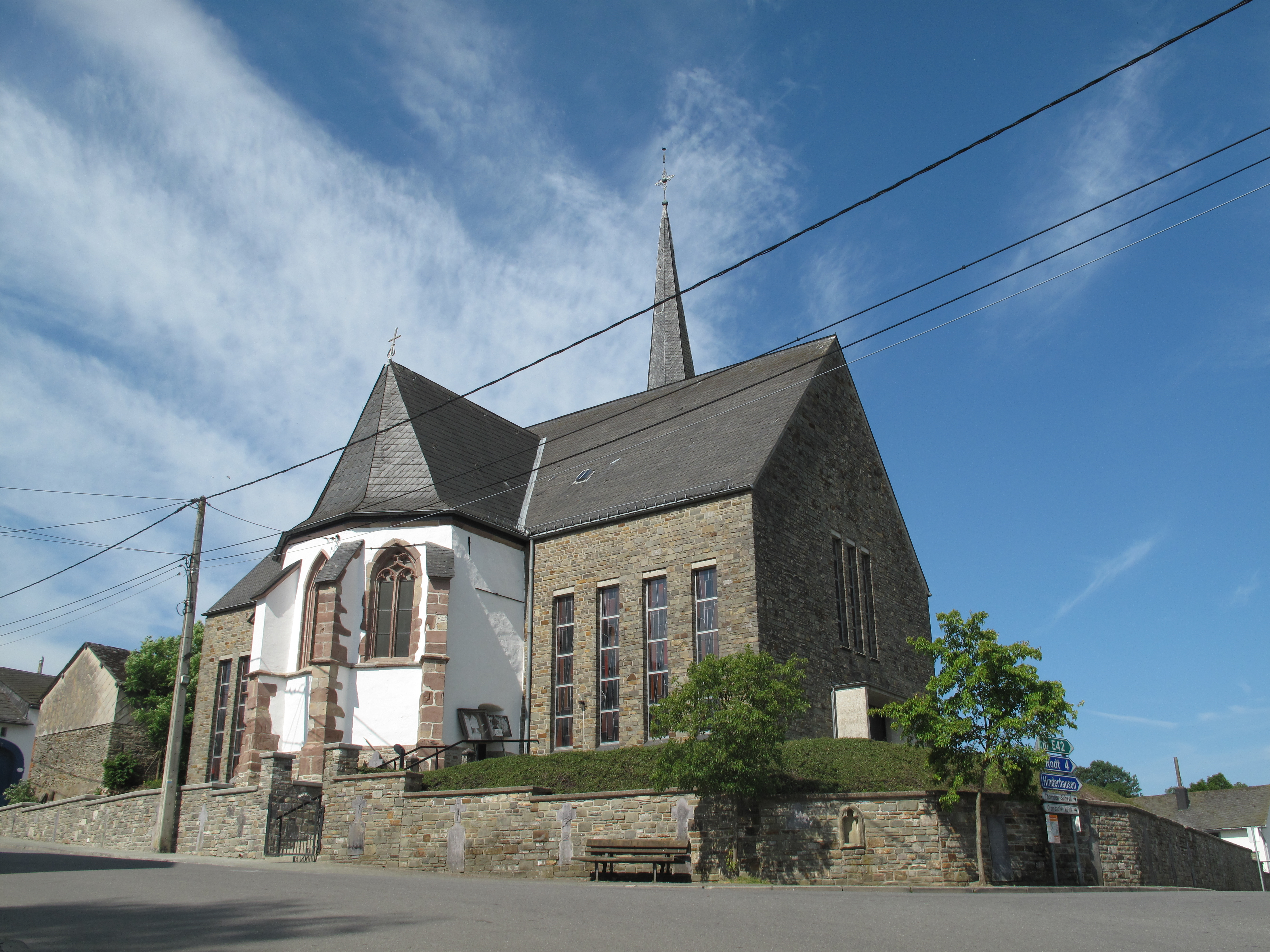 Crombach, church